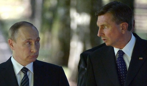 Vladimir Putin held talks with President of Slovenia Borut Pahor.